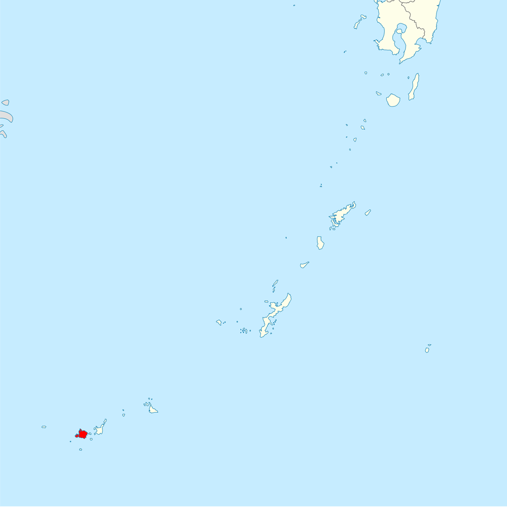 Distribution map of the endangered Iriomote cat (Prionailurus bengalensis iriomotensis). It is endemic to Iriomote island, in Okinawa prefecture, southern Japan. An IUCN Red List Critically Endangered species, with an estimated 100–109 individuals remaining.